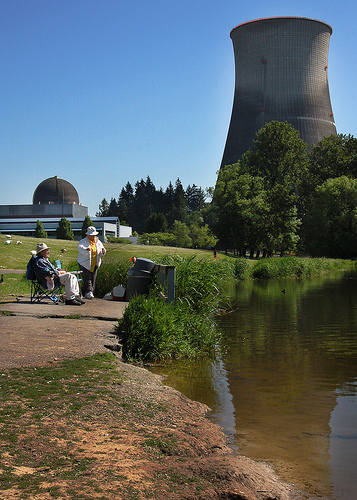 uploaded by photographer. username: erikpatt